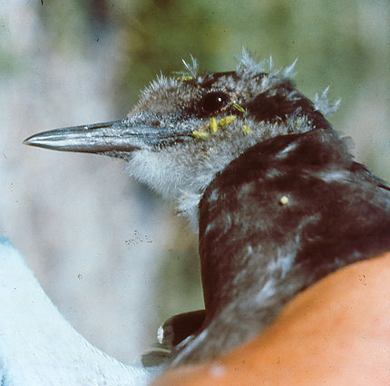 After walking through some Boerhavia diffusa plants, this juvenile sooty tern has some of its sticky fruits attached near its eye.